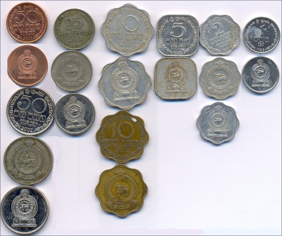 Coins of cts. of Sri Lanka, photo from collection of the uploader